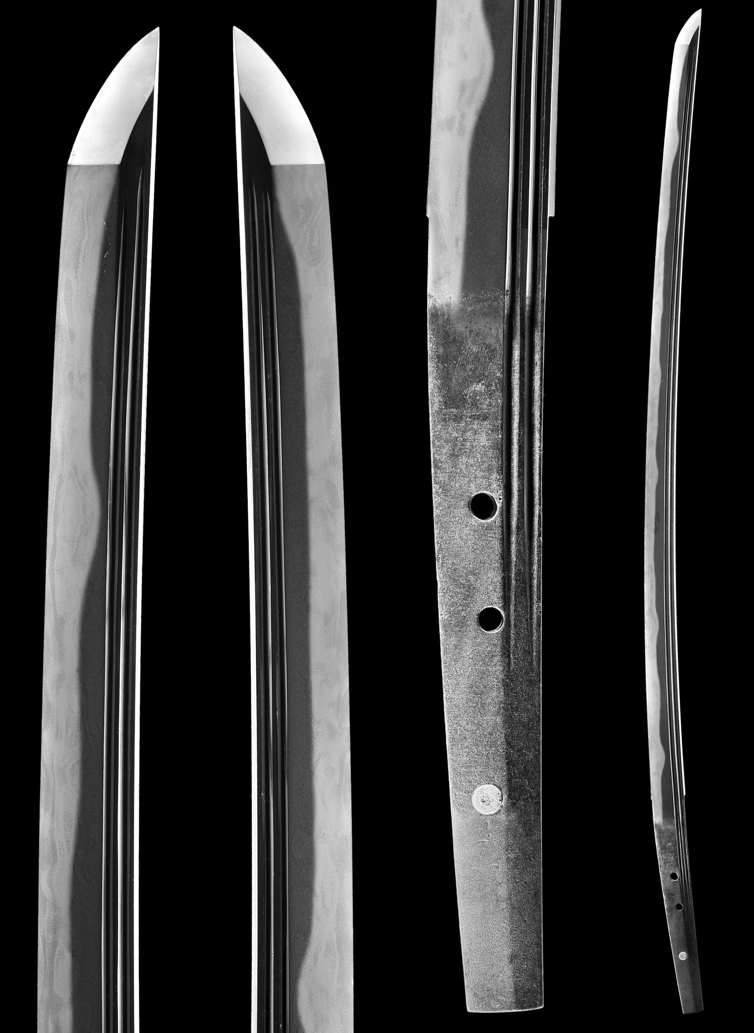 Soshu school katana, shortened from tachi and signature lost, attributed to Etchu Norishige and ranked NBTHK Tokubetsu Juyo Token.